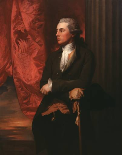 Sir Thomas Beauchamp-Proctor, 2nd Baronet (1756-1827)